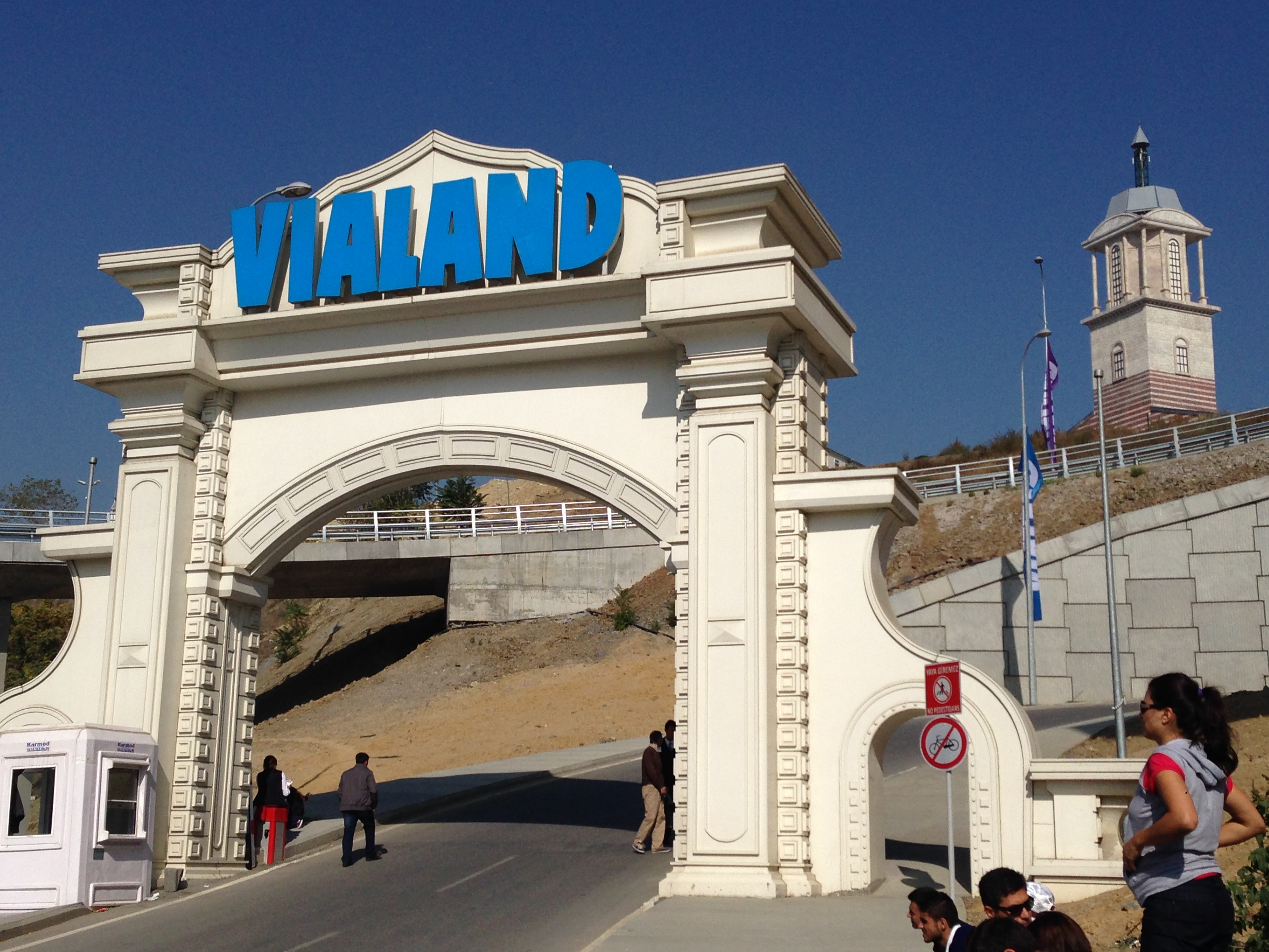 Vialand Theme Park, Istanbul, Turkey.